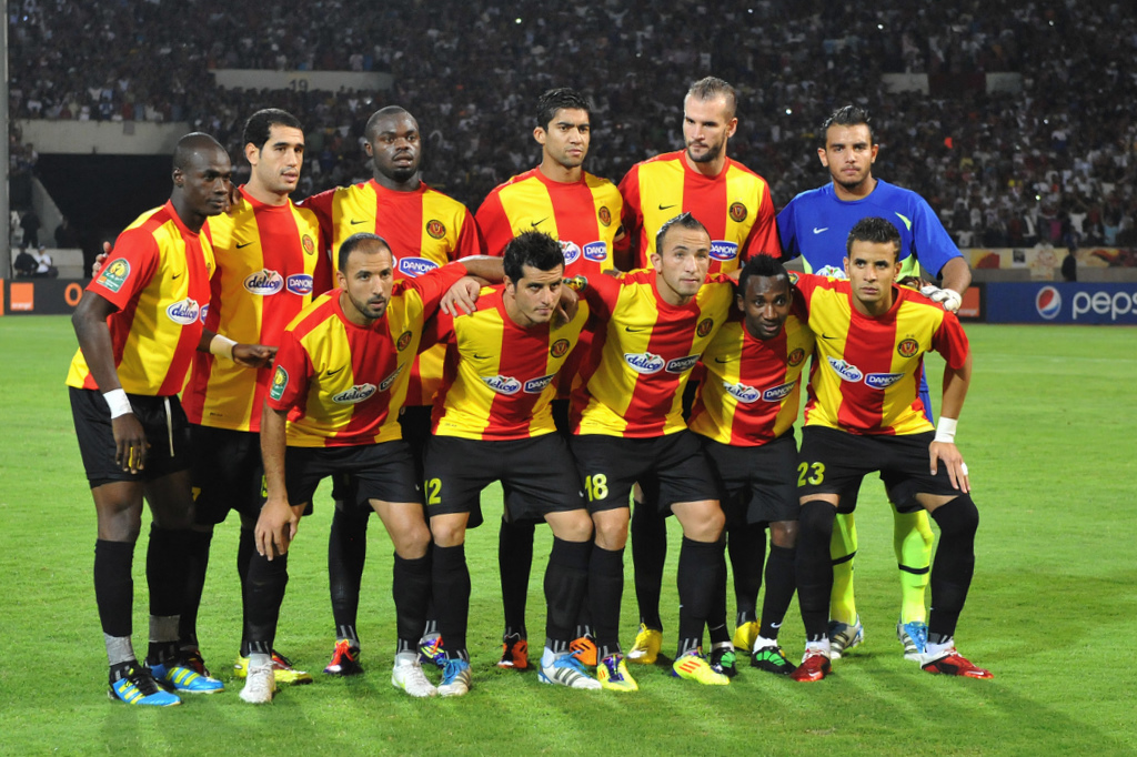 Espérance Sportive de Tunis before African Champions League matchh with Wydad Casablanca